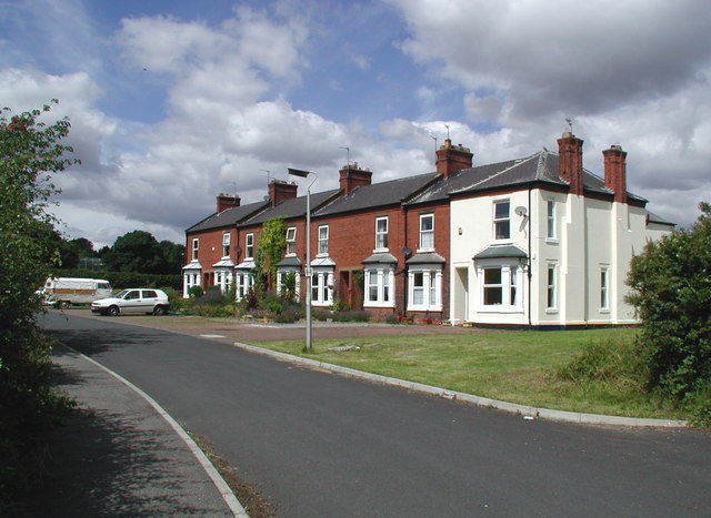 De la Pole Hospital, Cottingham, East Riding of Yorkshire, England.Former staff residences of the De la Pole Hospital off Willerby Low Road in the southwest corner of Cottingham Parish. The hospital was originally called the Kingston upon Hull Borough Asylum, founded in 1881 and built in 1883 by architects Smith and Brodrick of Hull. The name was changed to Kingston upon Hull Mental Hospital in 1917, then to Hull City Mental Hospital in 1924 and finally to De la Pole Hospital in 1939. The hospital closed in 1998.